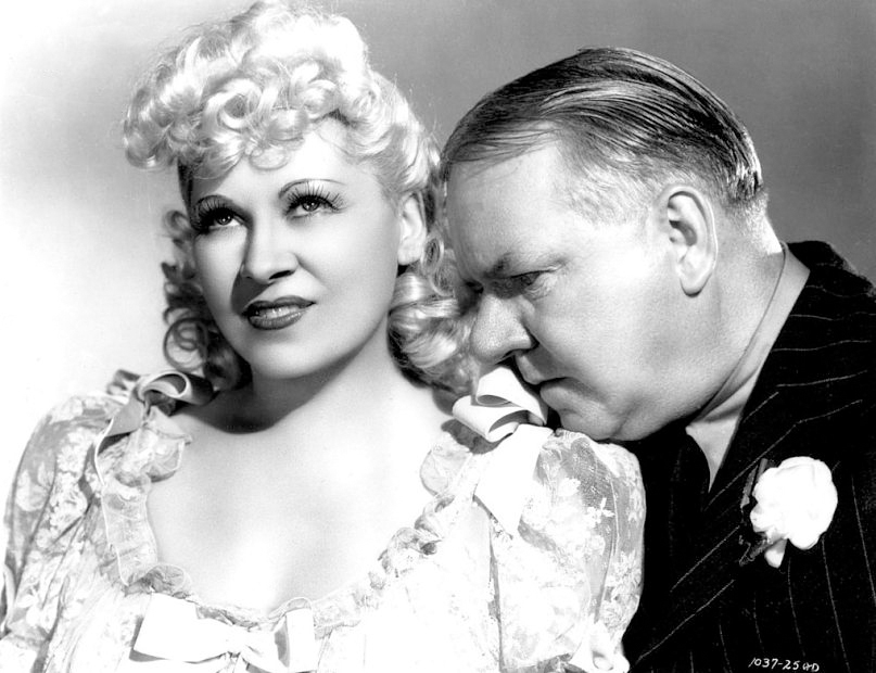 Promotional still for the 1940 film My Little Chickadee